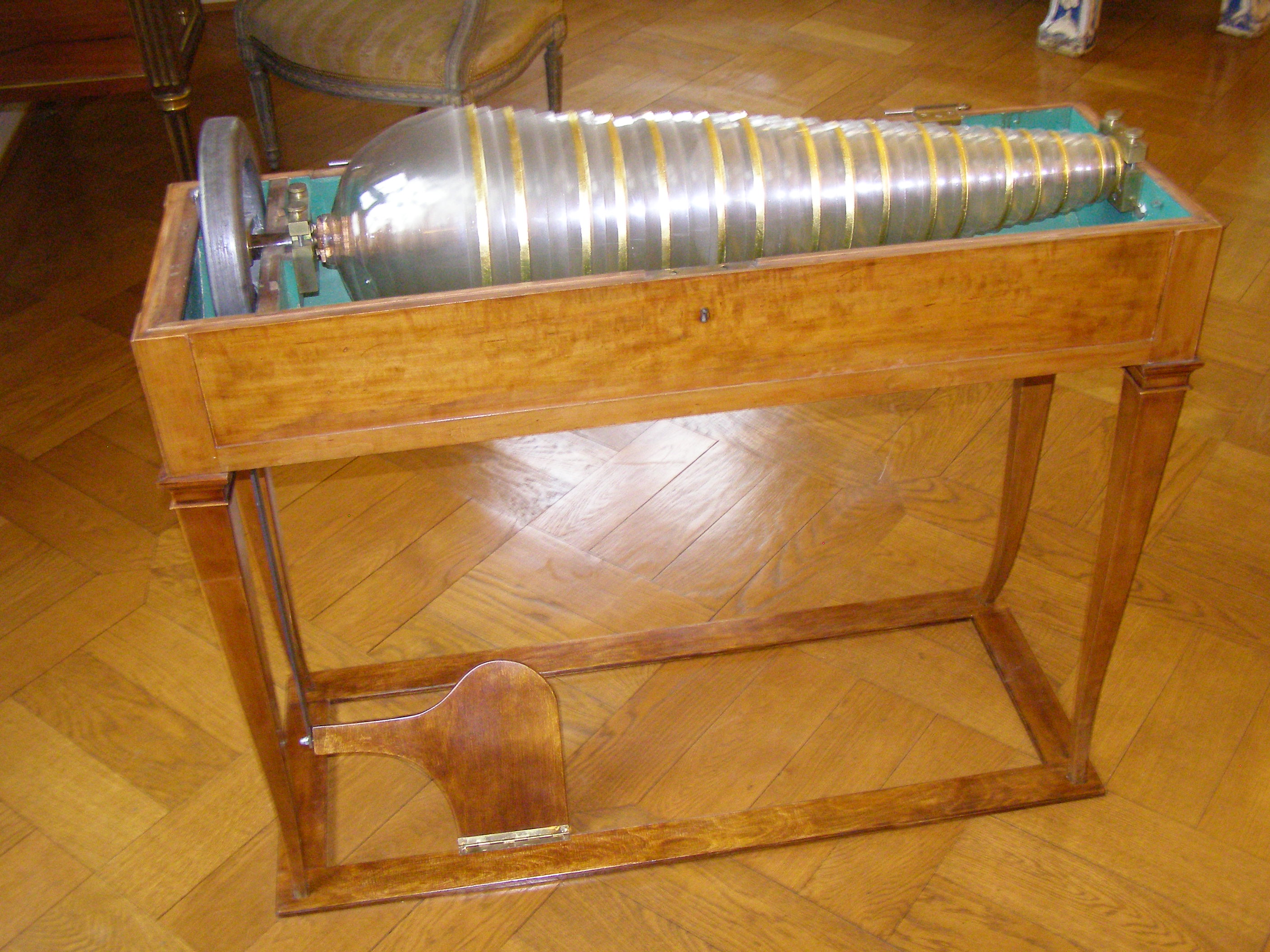 Glassharmonica, Unterlinden, Colmar